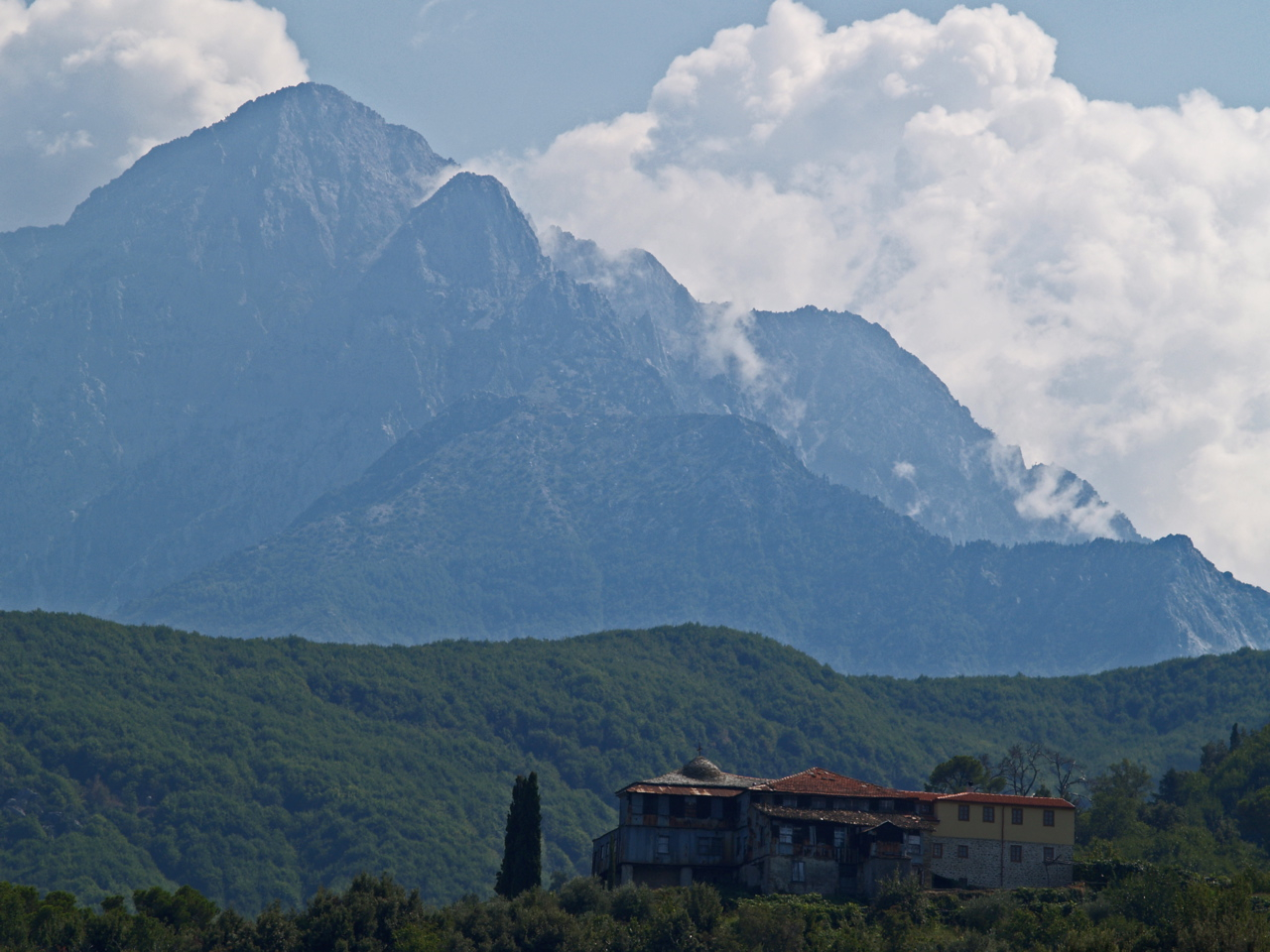 Mt. Athos